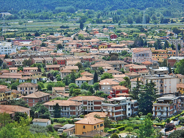 Sarzana from high